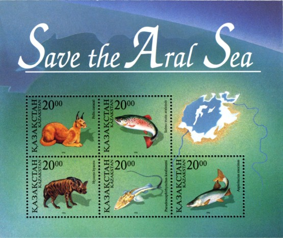 Stamp of Kazakhstan